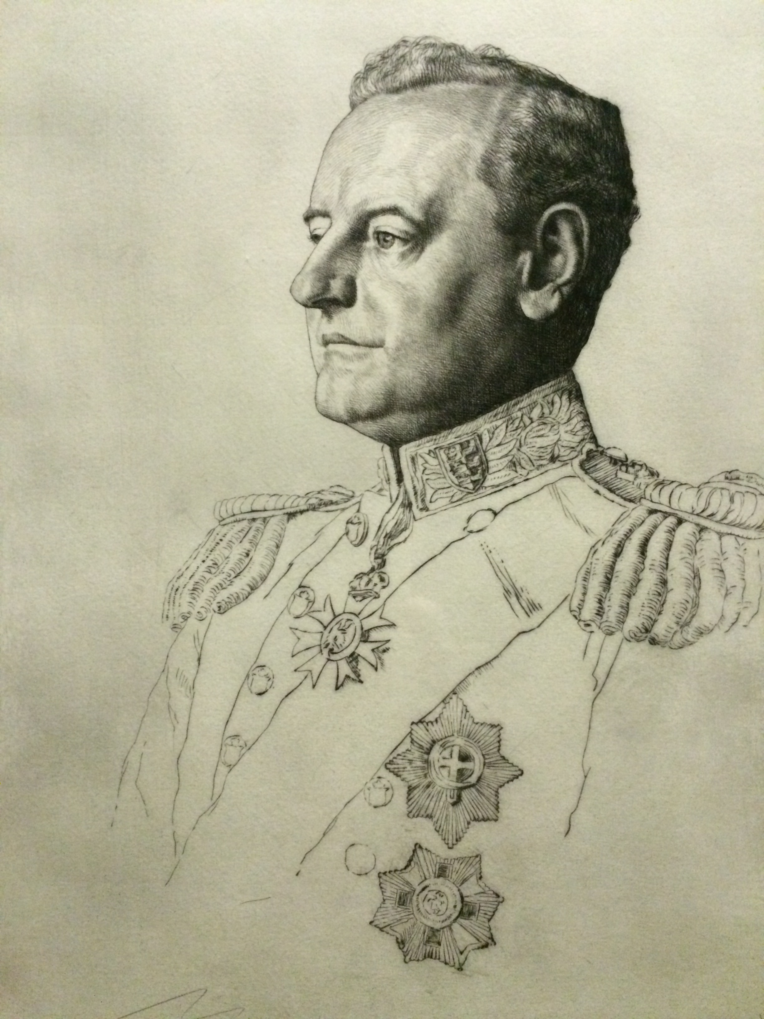 William Lygon, 7th Earl Beauchamp (1872-1938), Lord Warden of the Cinque Ports